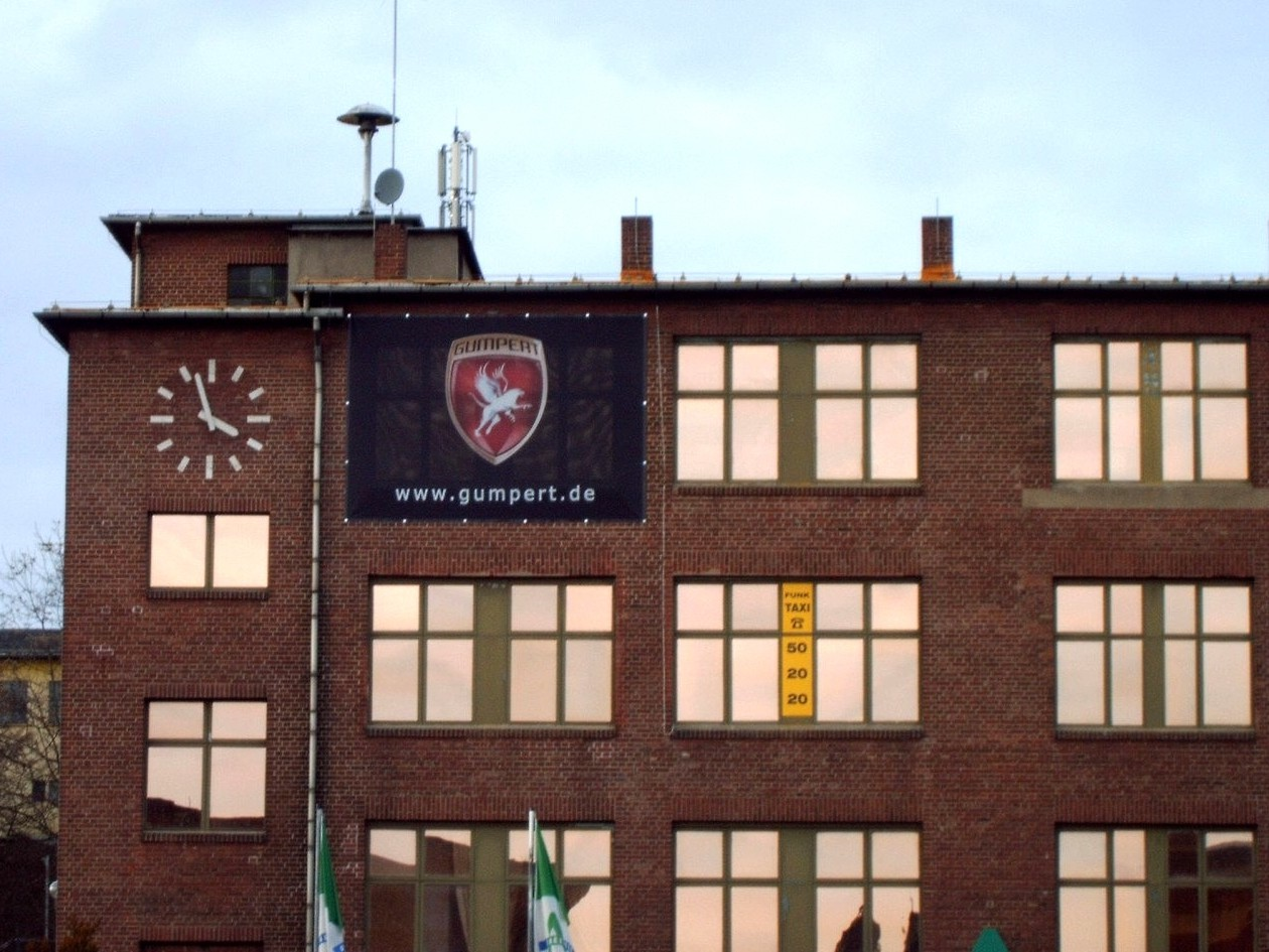 Gumpert building